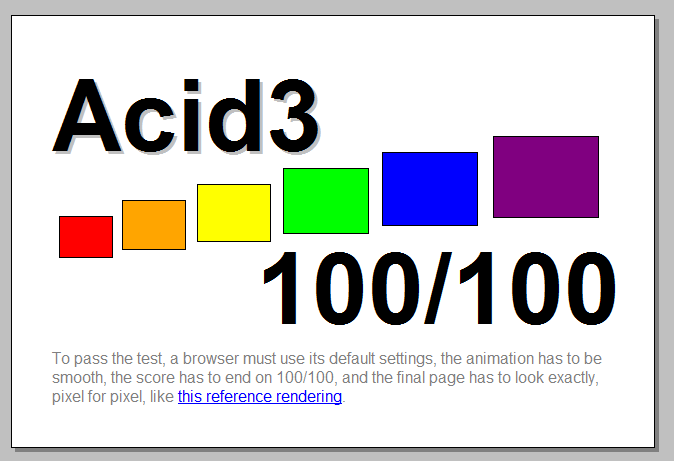 Chromium version 3.0.192.0 (19918) Acid3 Compliance